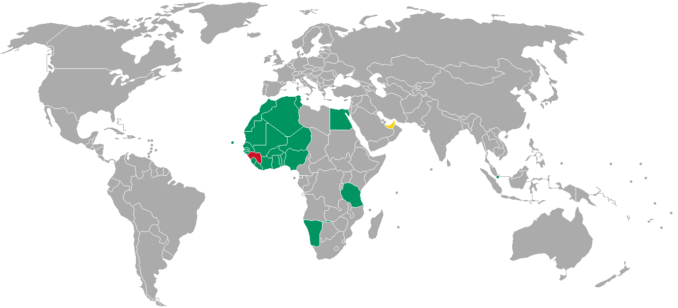 Visa policy of Guinea Guinea Visa exempt eVisa Disputed